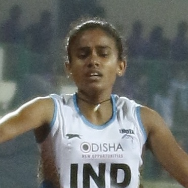 Women's 4x400m Relay Povamma Getting The Baton From Debashree Mazumdar at the 2017 Asian Athletics Championships at the Kalinga Stadium in Bhubaneswar, India